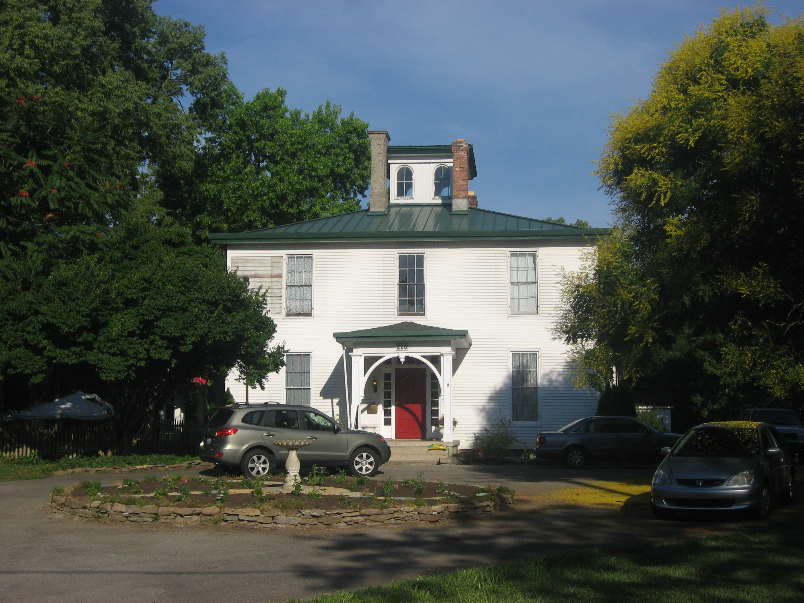 Front of Shields Crossing, the home of Edward M. Shields, located at 220 Riverside Avenue in Loveland, Ohio, United States. Built in 1868, it is listed on the National Register of Historic Places.